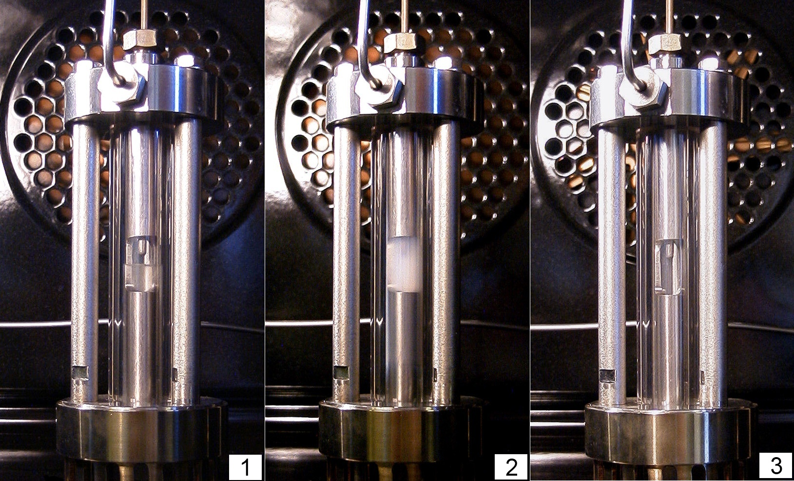 Measurement of the critical temperature of ethane; critical opalescence. 1. Subcritical state, liquid and gas phase coexist. 2. Critical point (32.17 °C, 48.72 bar), opalescence. 3. Supercritical state, fluid.